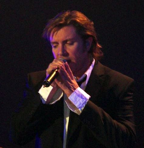 Simon Le Bon circa December 2005.